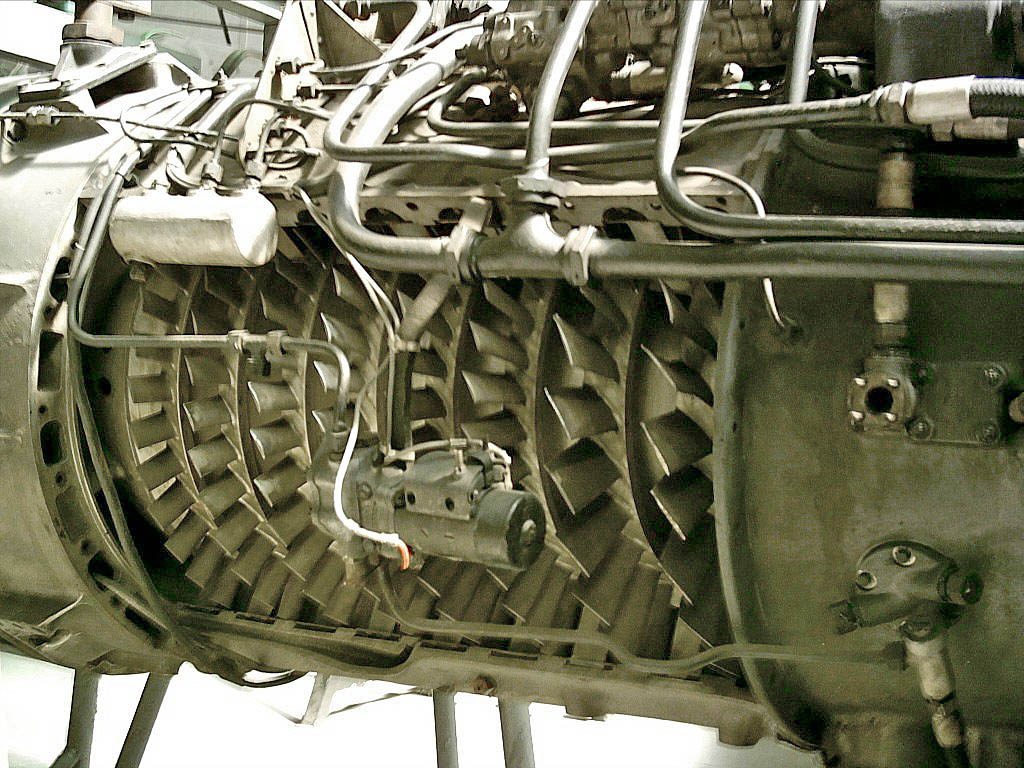 Junkers Jumo 004B-1, Kbely museum, Prague, Czech Republic